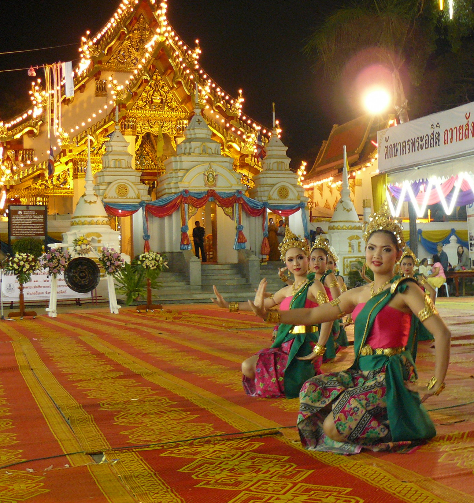 dancing art Thai ancient show in the Wat Phra Thaen Sila At fair in Thung Yang subdistrict, Amphoe Laplae, Uttaradit Province, Thailand.